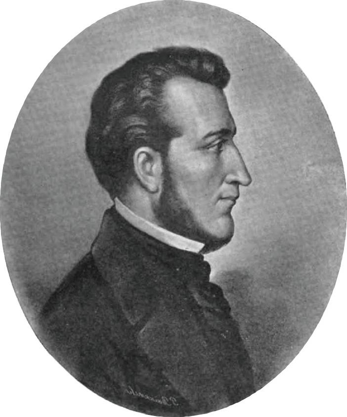 Taken from Revista de Costa Rica del Siglo XIX Public Domain